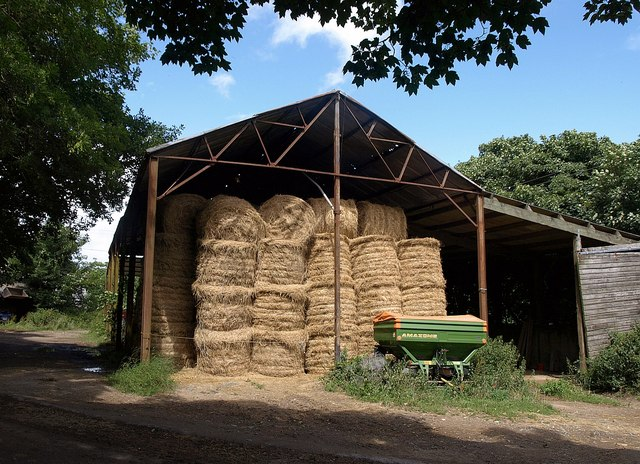 Barn, Bosoughan, near to Mountjoy, Cornwall, Great Britain. An open-ended barn replete with bales of straw at Bosoughan Farm.